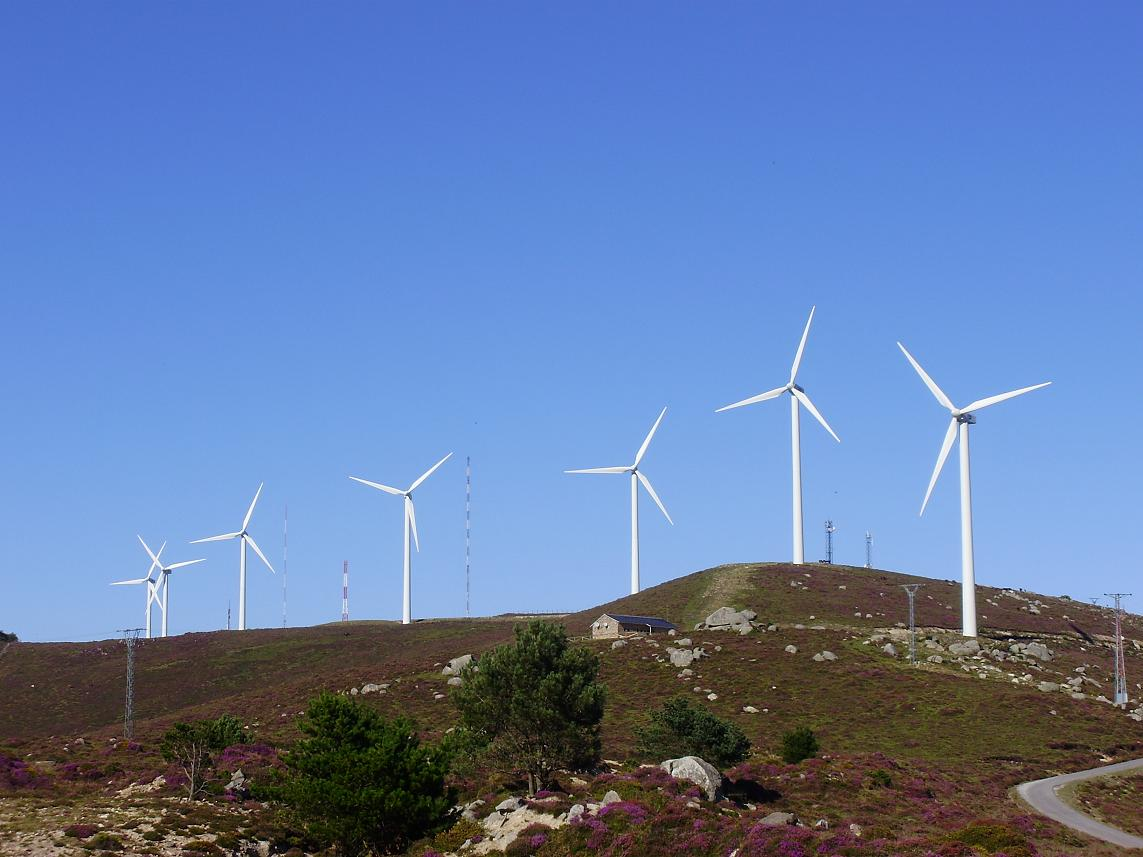 Picture of the Penouta Height, located at the northwestern part of the municipality of Boal (Asturias, Spain). As you can see, there are a few wind power mills on the top.